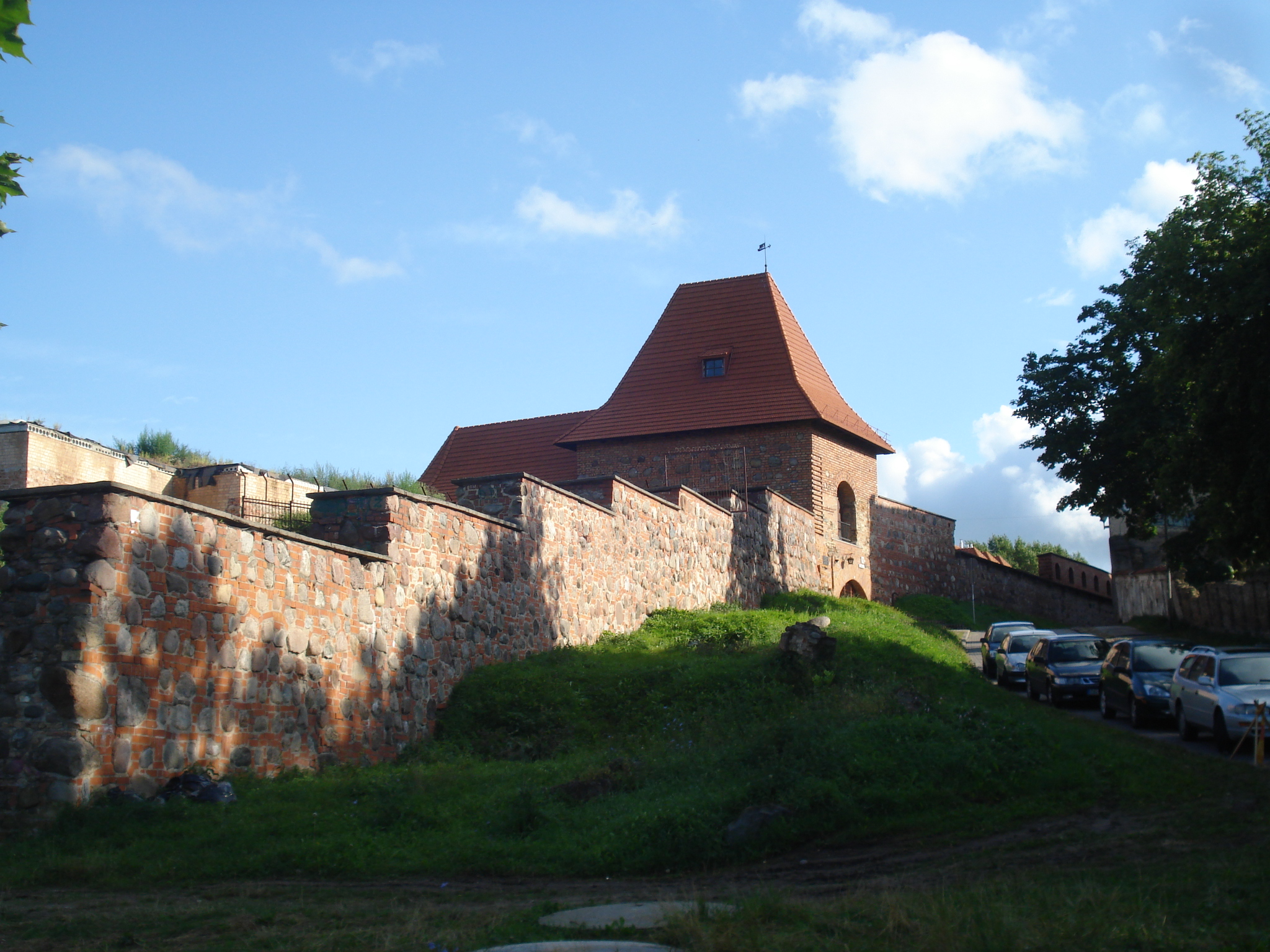 The Bastion of Vilnius Defence Wall. 20/18 Bokšto Str.